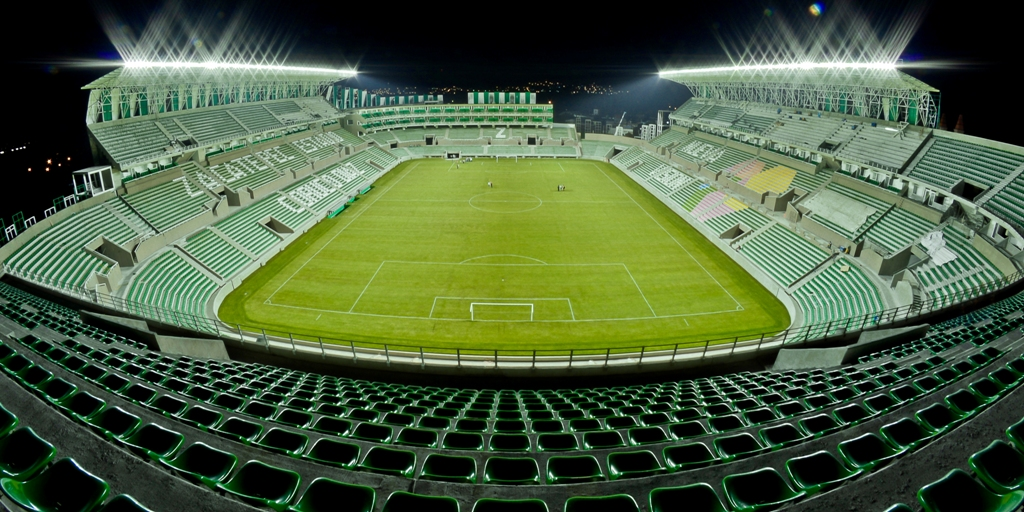 Estadi